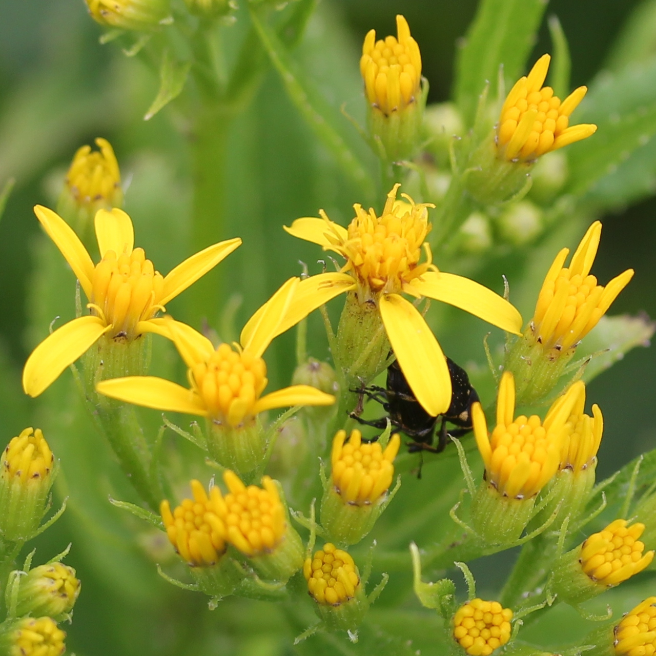 Flowers of Senecio nemorensis, in Mount Ibuki, Maibara, Shiga prefecture, Japan.